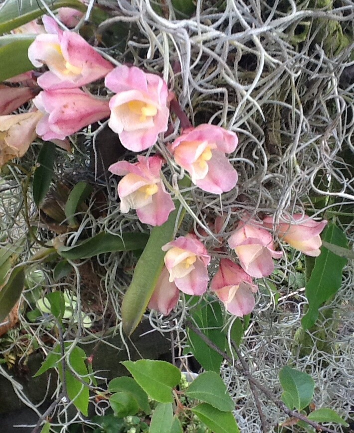 Orquídeas Soatenses